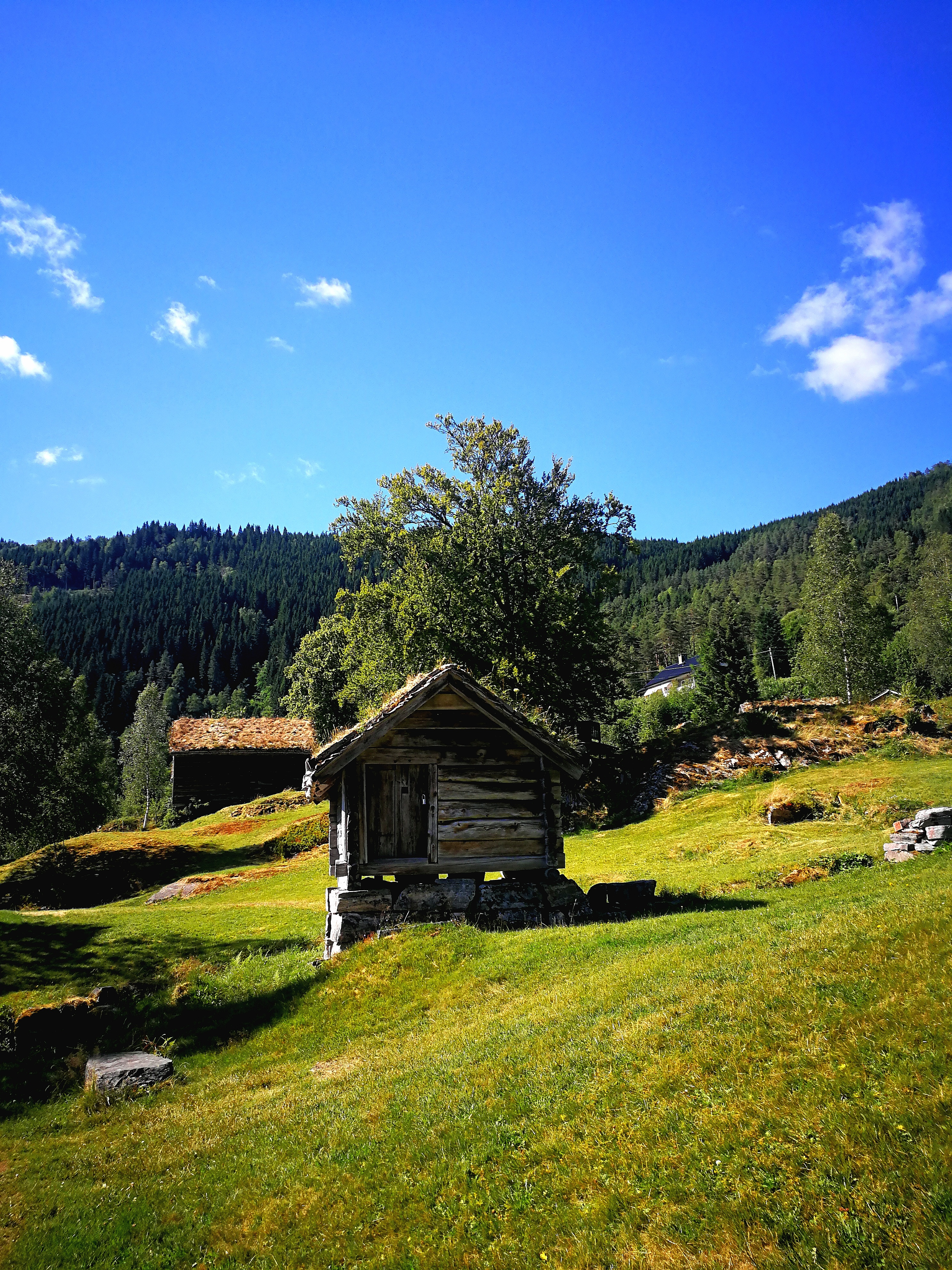 Mill at Sunnfjord Museum, Førde in Sogn og Fjordane, Norway. photographed in july 2018